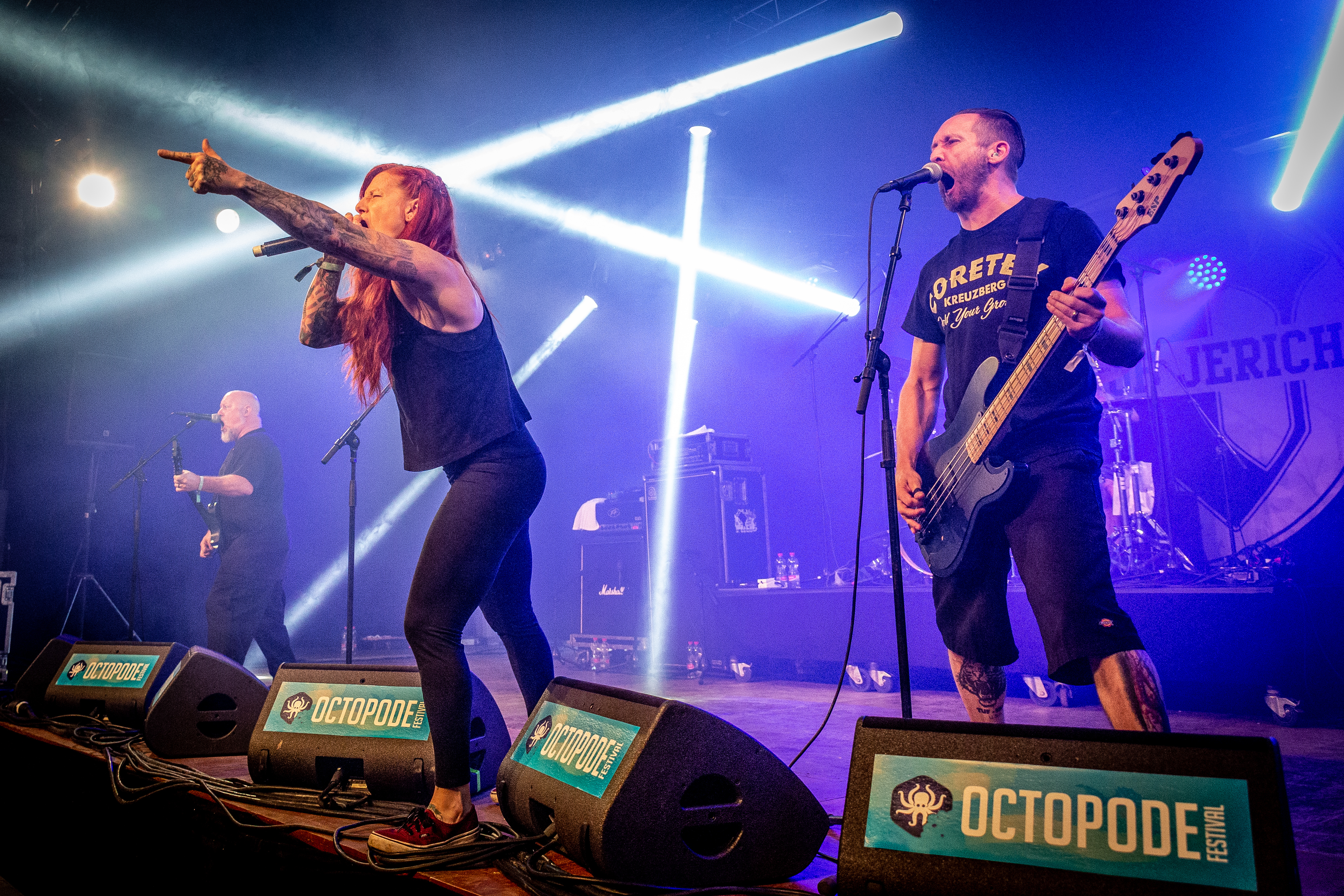 Walls of Jericho (punk/hardcore, USA). Festival Octopode 2019, 24 août 2019. Photo: Stéphane Gallay, sous licence Creative Commons (CC-BY)